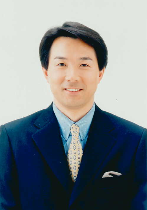 Kōhei Ōtsuka, President of the Democratic Party.